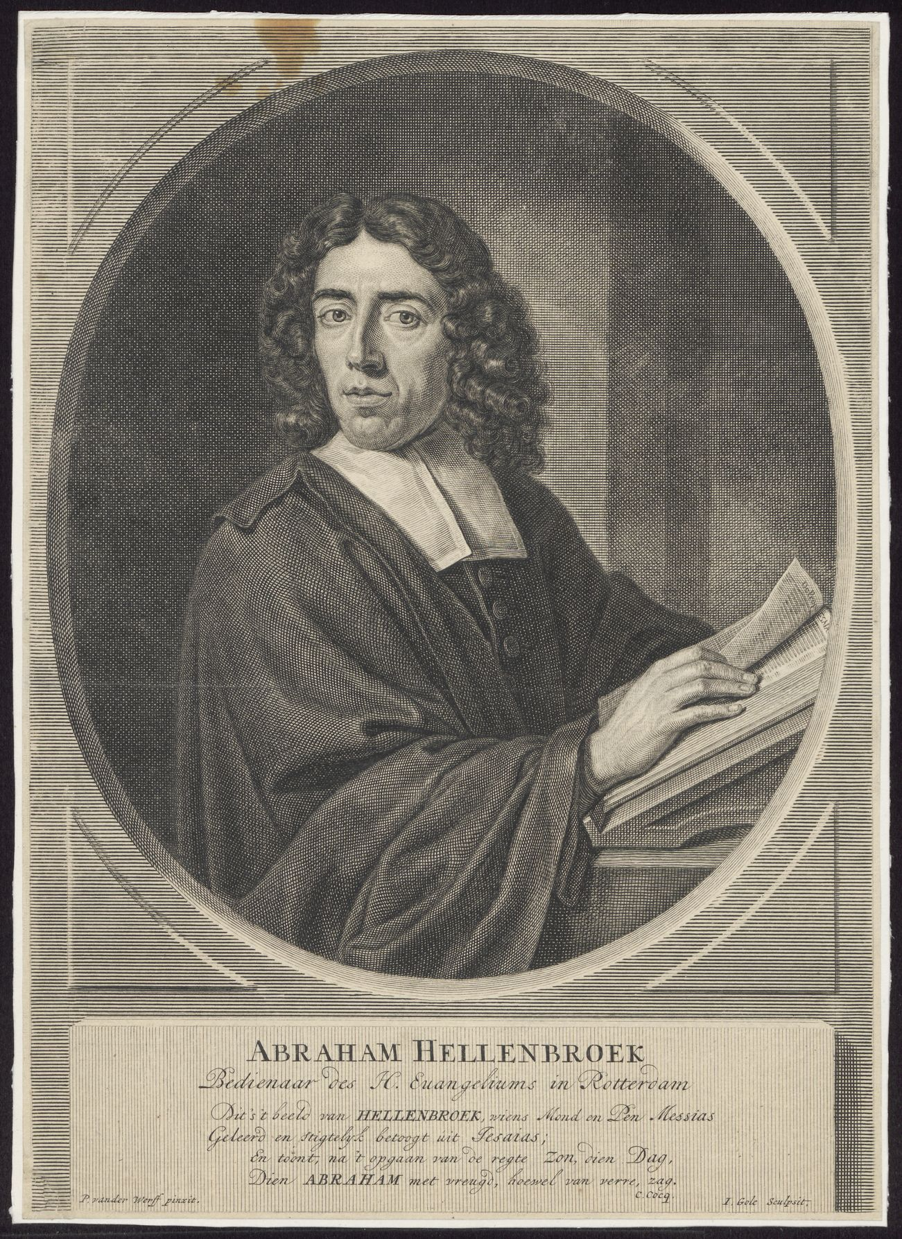 Abraham Hellenbroek (1658-1731), Dutch minister.